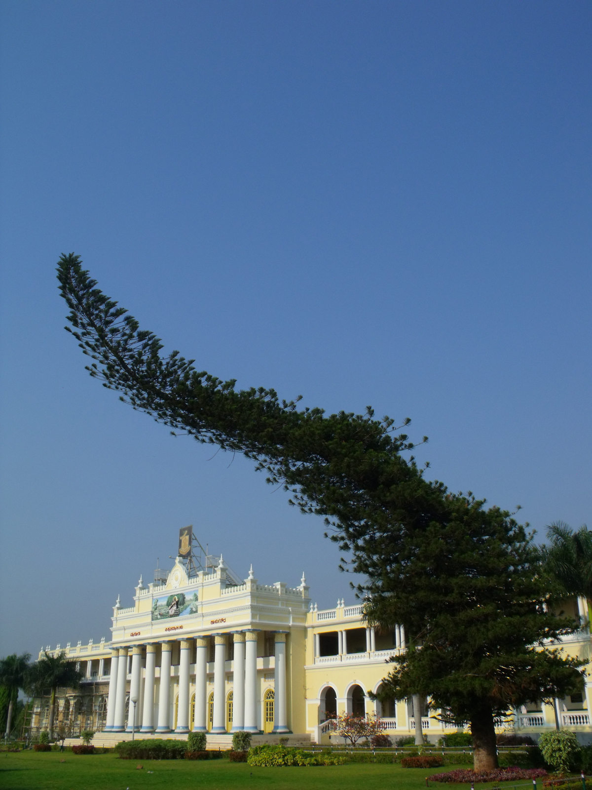 Administrative offices of the University of Mysore